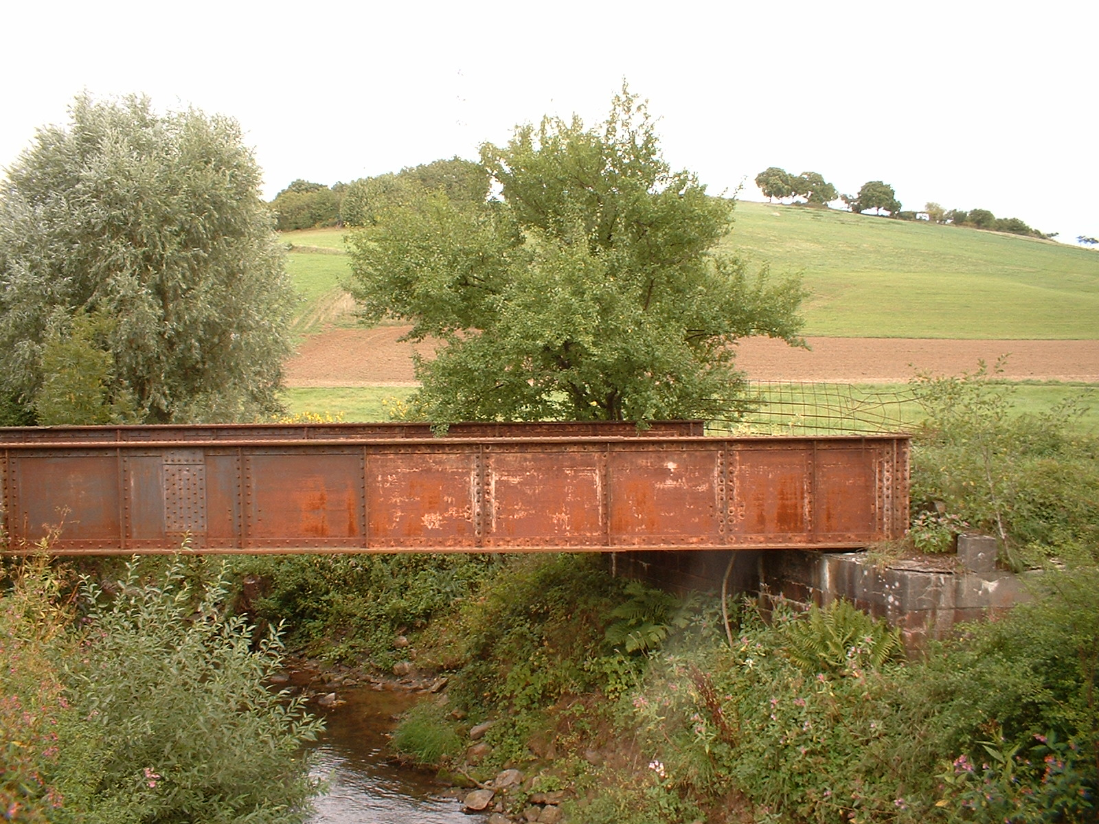 Bridge of former Gersprenztalbahn in Groß-Bieberau (Odenwald), Hessen, Germany